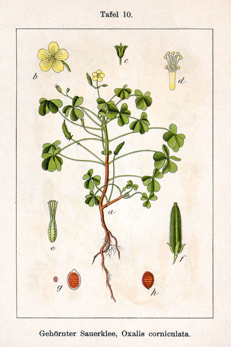 Oxalis corniculata L. Original Description Gehörnter Sauerklee, Oxalis corniculata